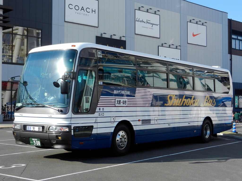 Shuhoku bus Mitsubishi Fuso Aero Queen I (KC-MS822P) for highwaybus "Odate-Sendai"